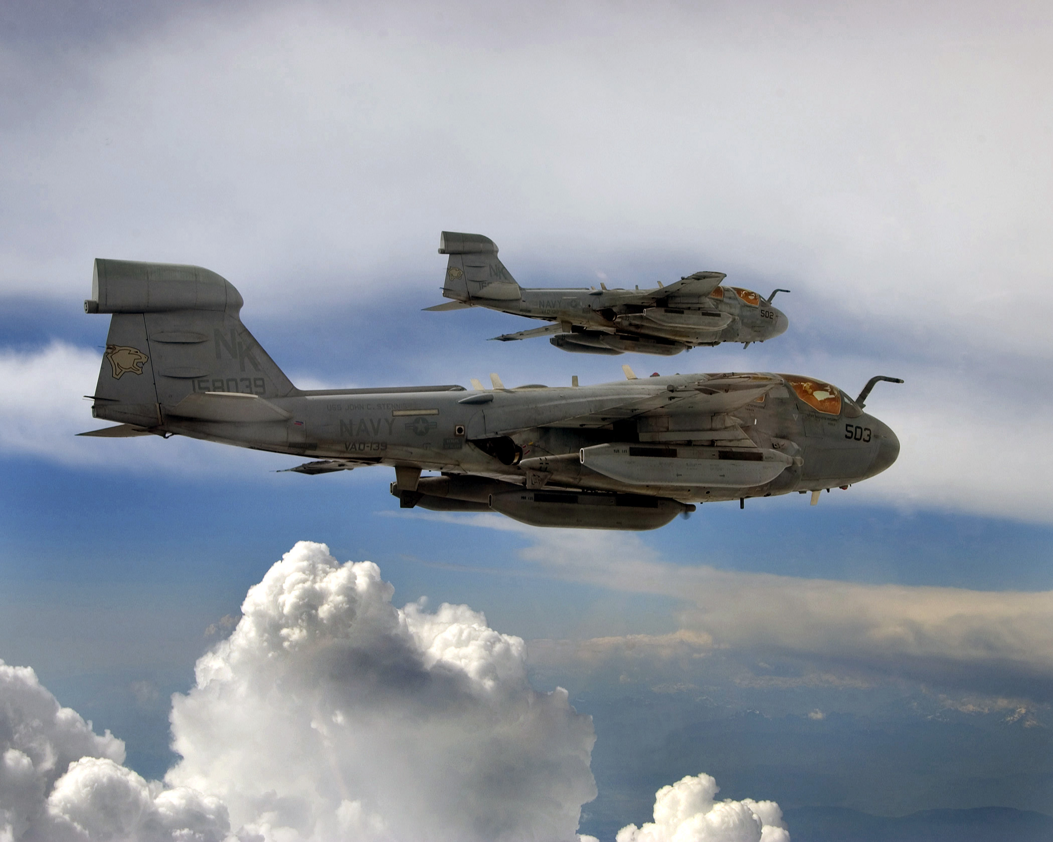 Two U.S. Navy Grumman EA-6B Prowler (BuNo 158039, 160707) of Electronic Attack Squadron 139 (VAQ-139) "Cougars" flying in formation during a routine training mission conducted in support of "Operation Iraqi Freedom", in 2004. VAQ-139 was assigned to Carrier Air Wing 14 (CVW-14) aboard the aircraft carrier USS John C. Stennis (CVN-74) for a deployment to the Western Pacific from 24 May to 1 November 2004.